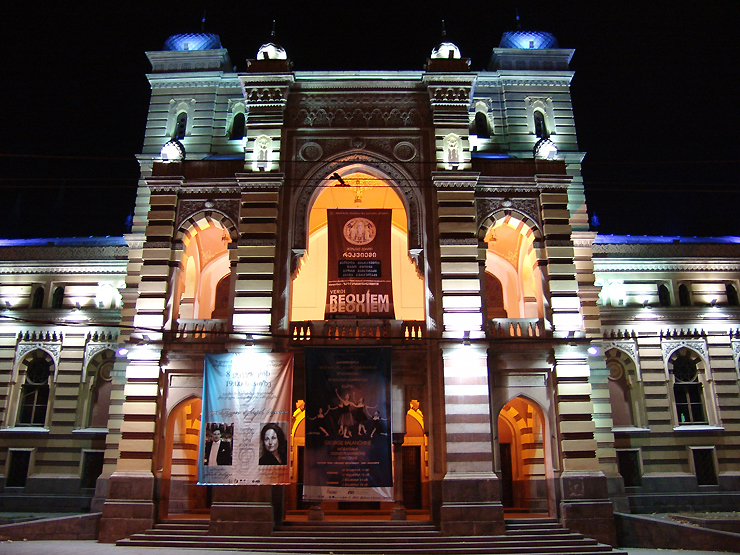 Opera House, Tbilisi, Georgia (Teatr opery i baleta im. Zakaria Paliashvili)